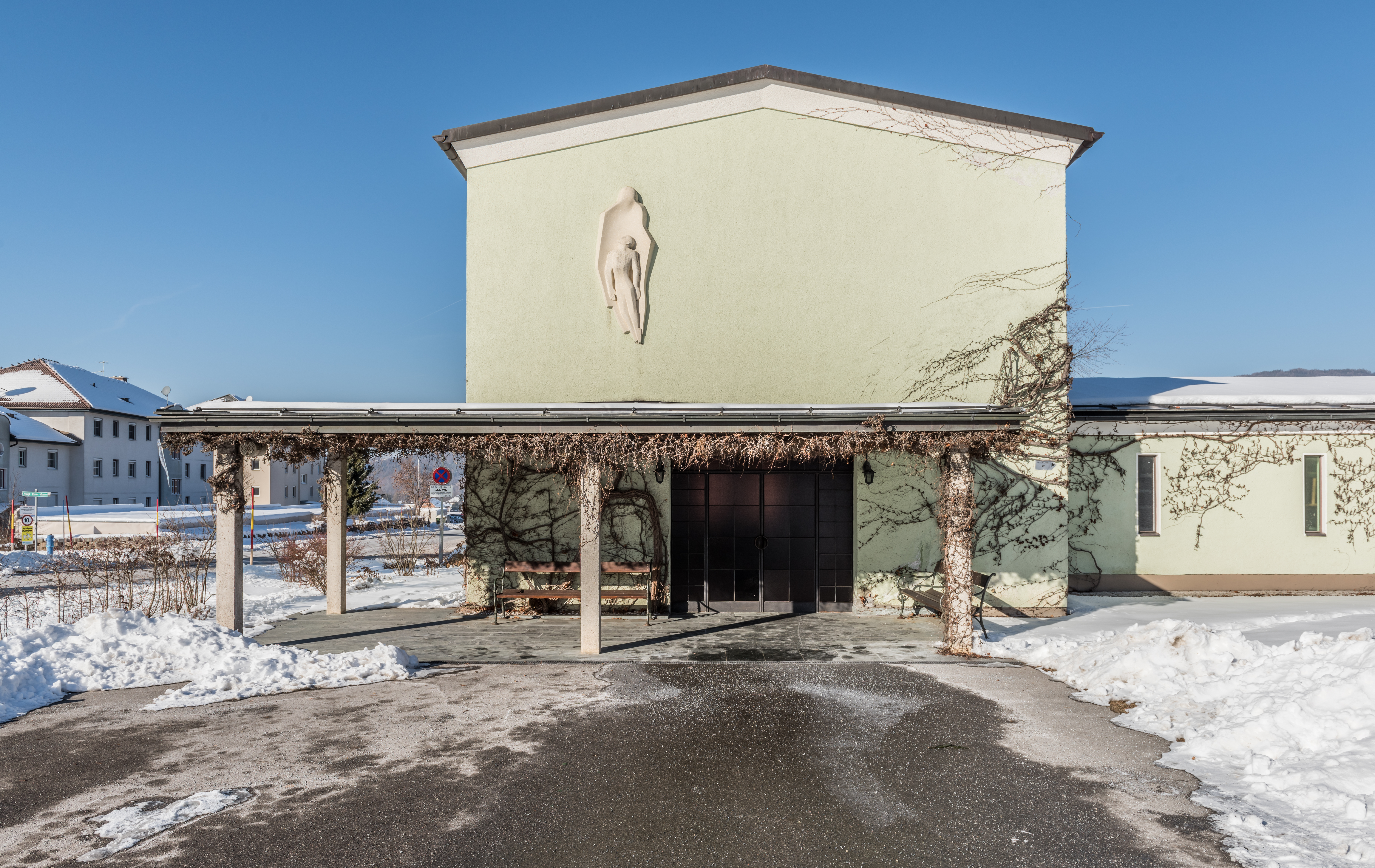 Mortuary with relief by Franz Schneeweiss at the square in front of the Park Cemetery, Georg-Lora-Street #28, municipality Ferlach, district Klagenfurt Land, Carinthia, Austria, EU